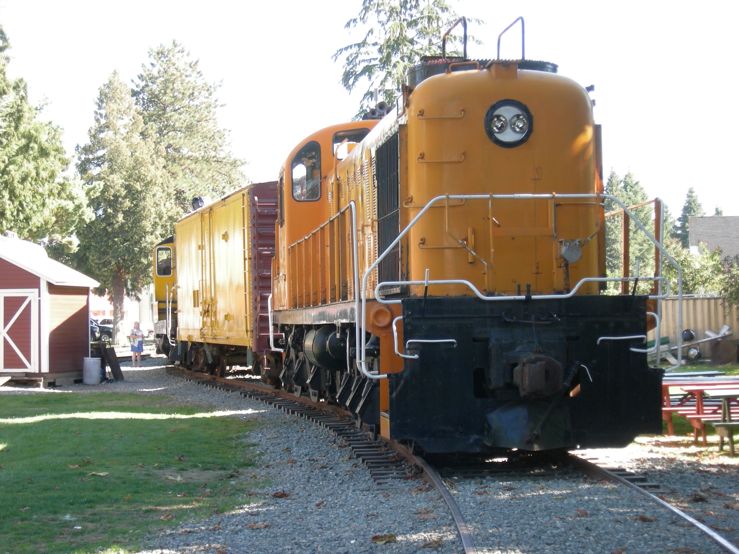 Kennecott Copper Corporation locomotive 201 on display at Snoqualmie Depot, Snoqualmie, Washington, USA. Built 1951 by ALCO, this is a model RSD-4 diesel-electric locomotive: a 12-cylinder diesel engine drives an electric generator.